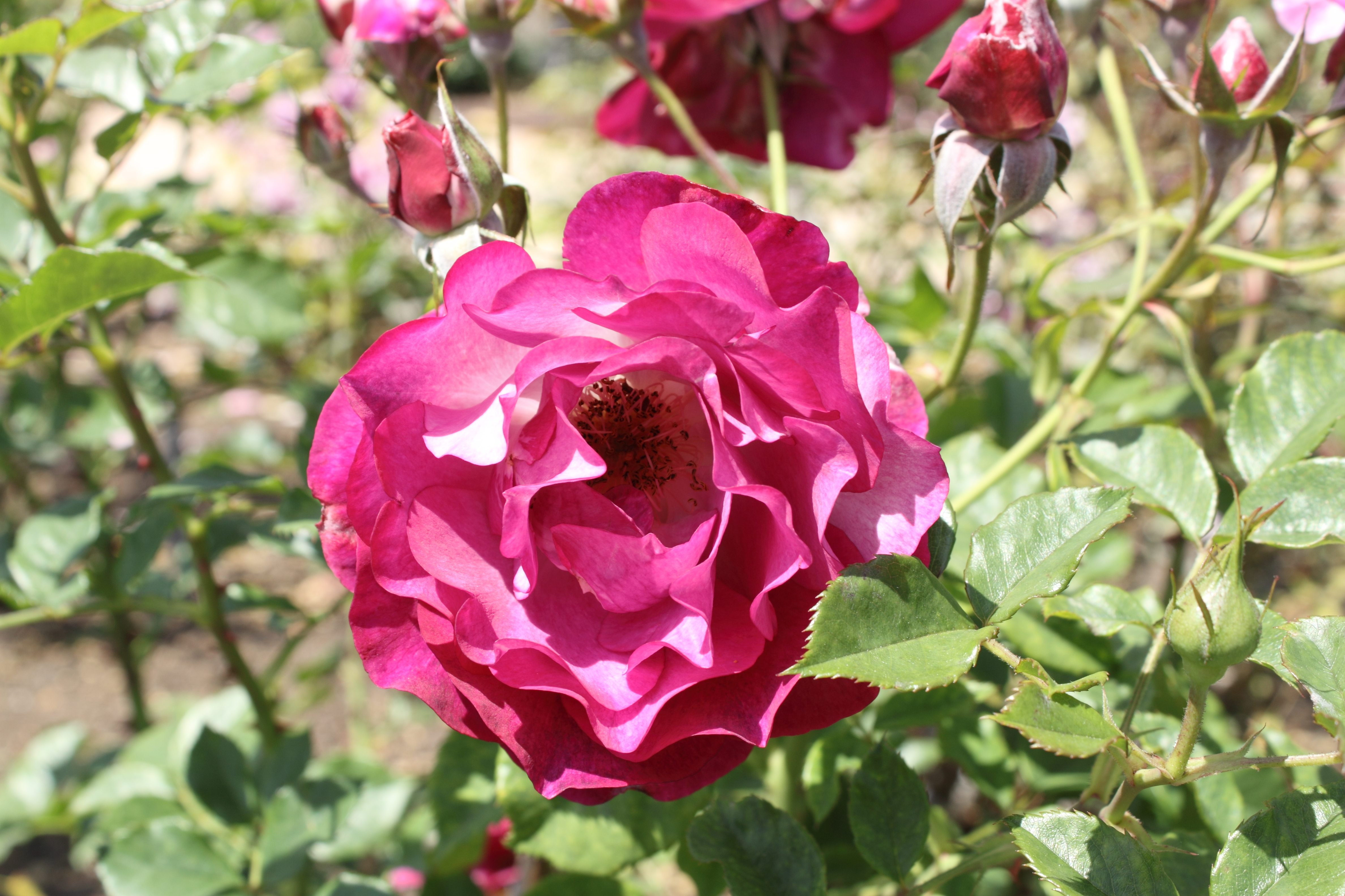 Rosa en 'Wild Blue Yonder', taken at the Inez Grant Parker Memorial Rose Garden at Balboa Park, San Diego, California